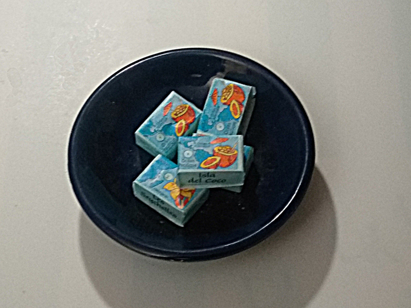 packaged sugar cubes as sold in France